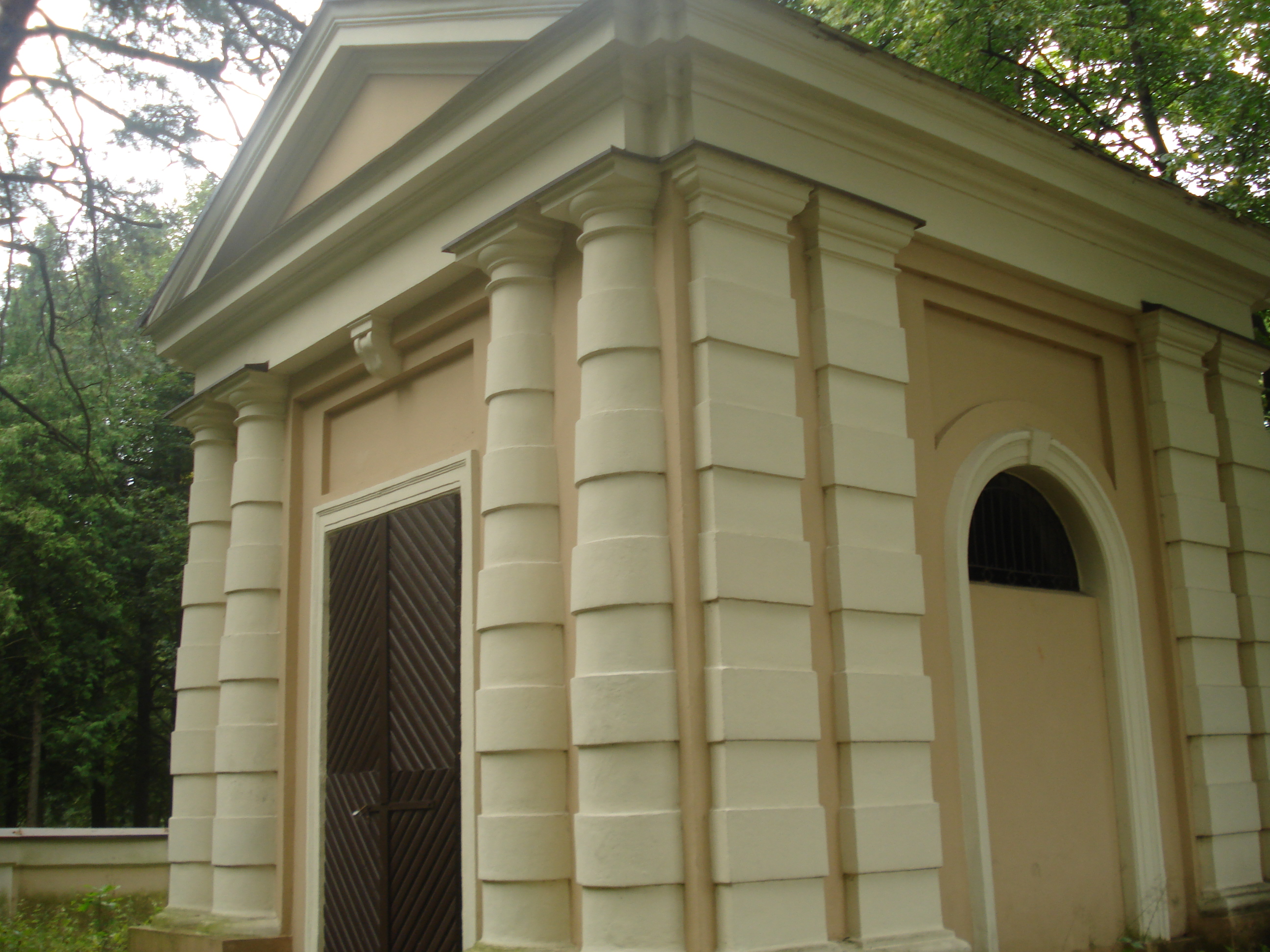 Chapel on the grave of Repnina the Vingis park in Vilnius